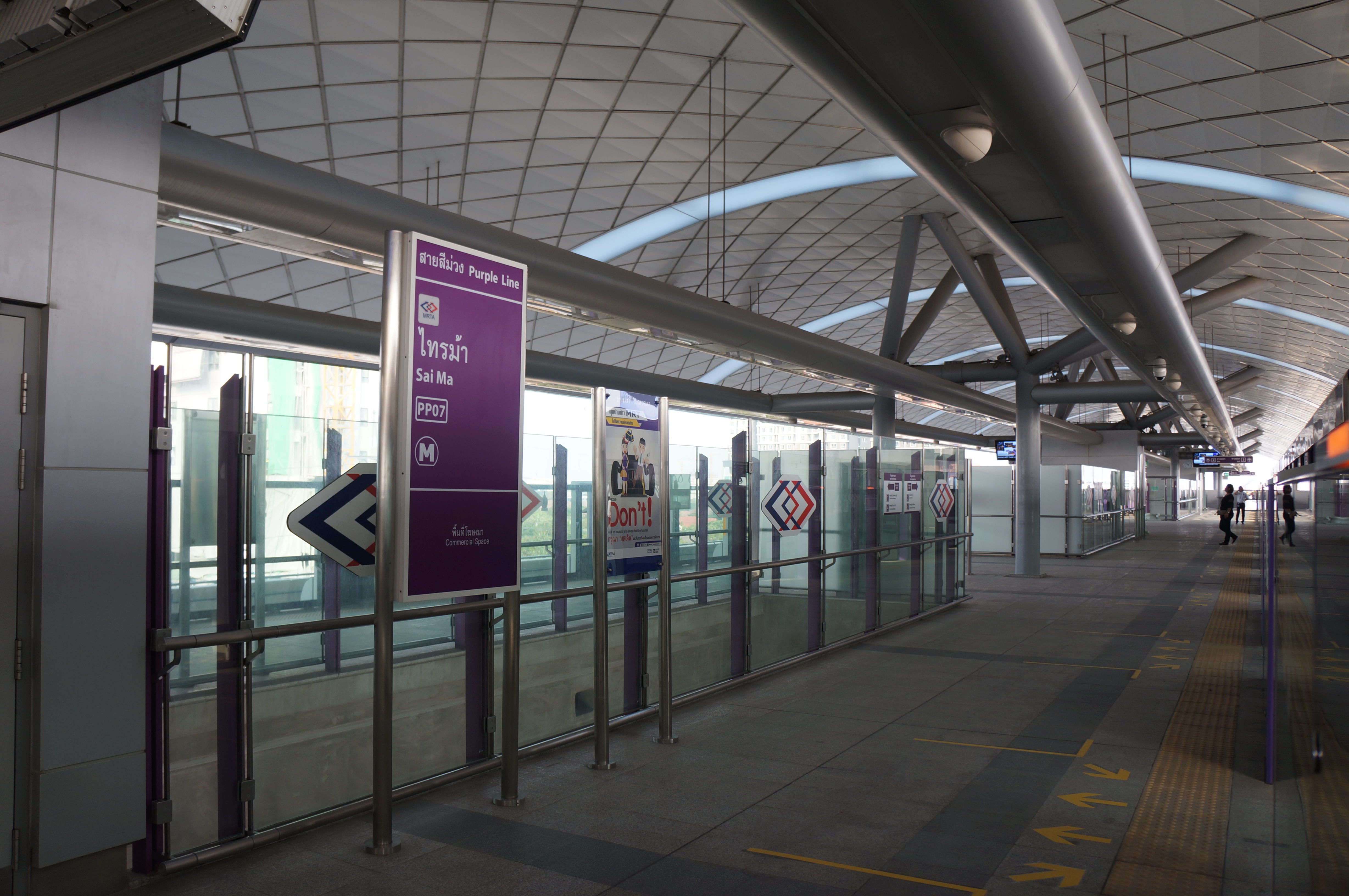 201701 Sai Ma Station